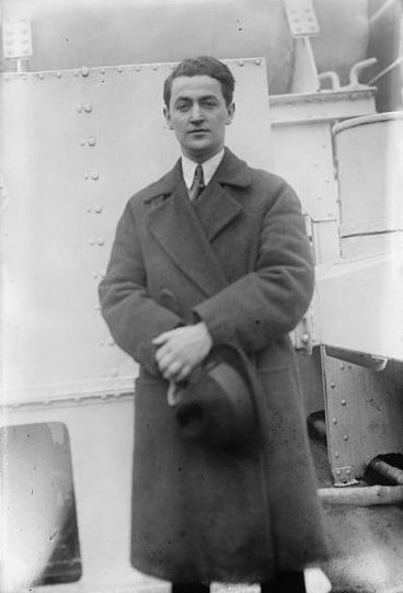 Samuel Dushkin (1891 — 1976), Polish-born, American violinist